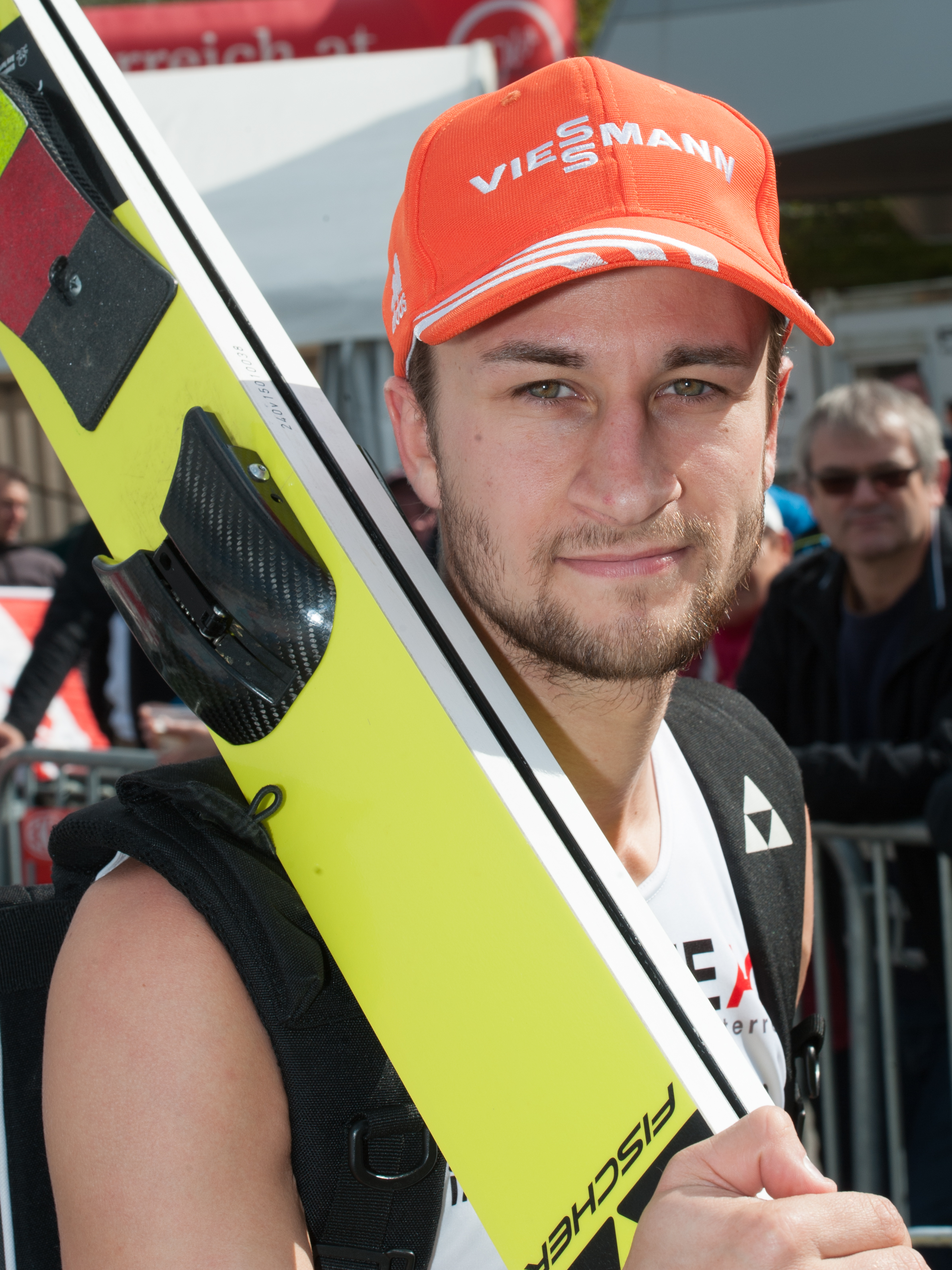 Fis Ski Jumping Summer Grand Prix in Hinzenbach, Upper Austria, 2015-09-27: Markus Eisenbichler